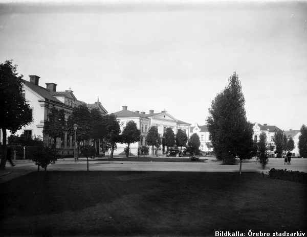 The square Vasatorget Örebro Sweden